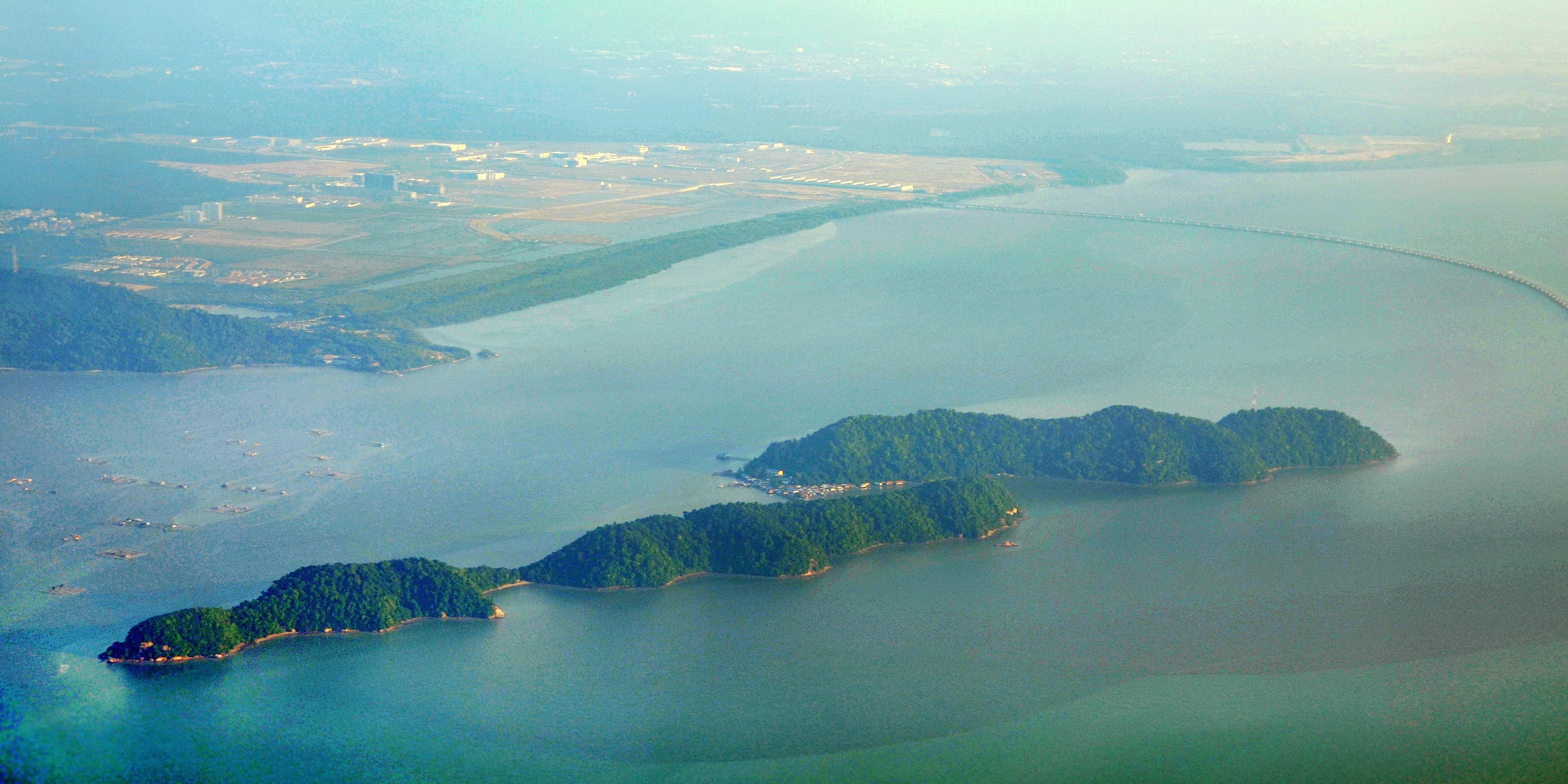 Aerial view of Pulau Gedung and Pulau Aman with Juru in the background.